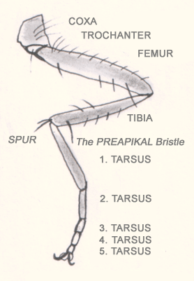 Insecta - foot